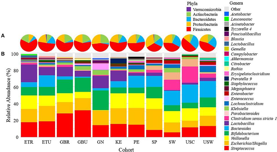 Mean relative abundances of bacterial (A) phyla and (B) an aggregation of the 10 most-abundant genera in milk in each cohort. ETR, rural Ethiopia; ETU, urban Ethiopia; GBR, rural Gambia; GBU, urban Gambia; GN, Ghana; KE, Kenya; SP, Spain; SW, Sweden; PE, Peru; USC, California (United States); USW, Washington (United States).